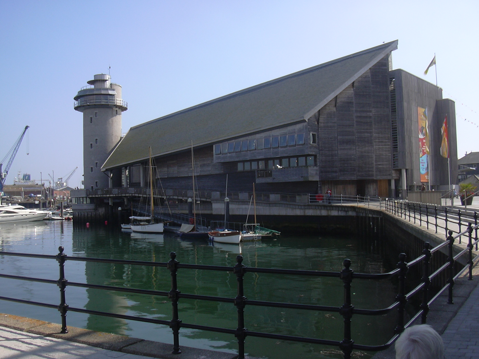 National Maritime Museum Cornwall at Falmouth - view from Events Square.